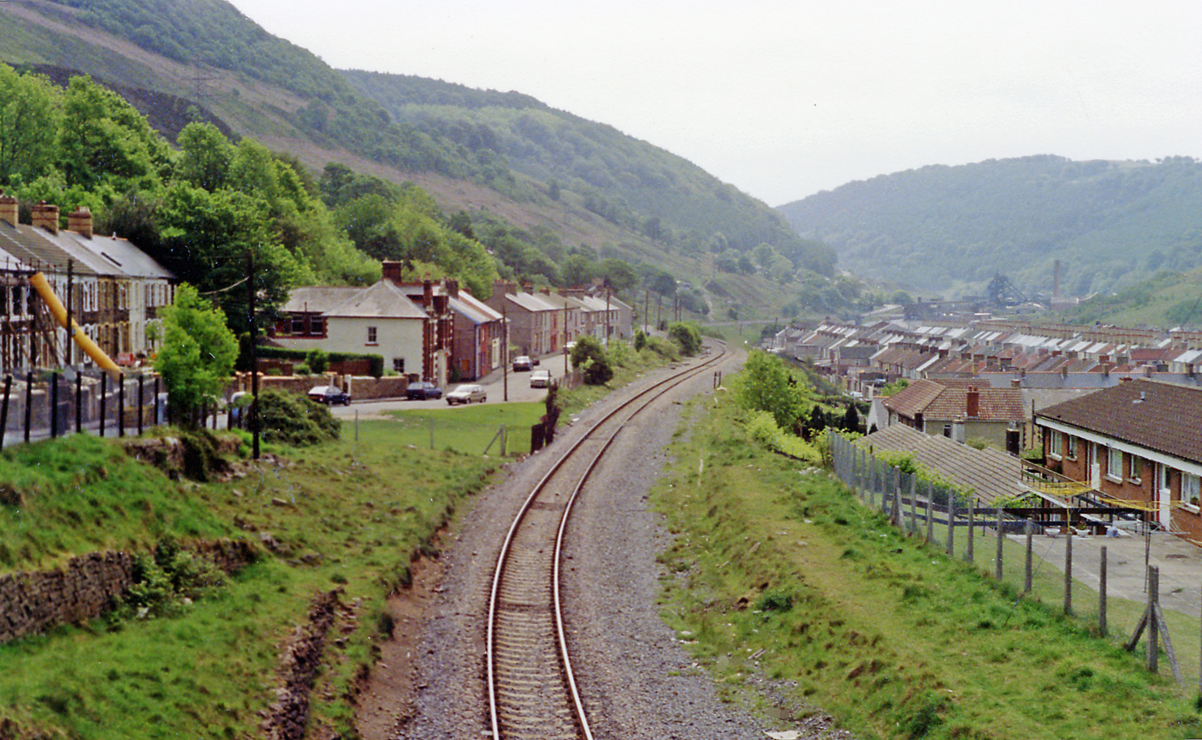 Site of Cwm station Ebbw Vale line, 1990. View southward, towards Aberbeeg and Newport: ex-GW Western Valleys line, Newport - Risca - Aberbeeg - Ebbw Vale. The station was closed along with the passenger service on 30/4/62, but the line remained for freight traffic, latterly only for Ebbw Vale steelworks. From 6/2/08, a passenger service was restored to Ebbw Vale (Parkway), but from Cardiff Central via Park Junction (west of Newport) and a new station has yet to be provided at Cwm.